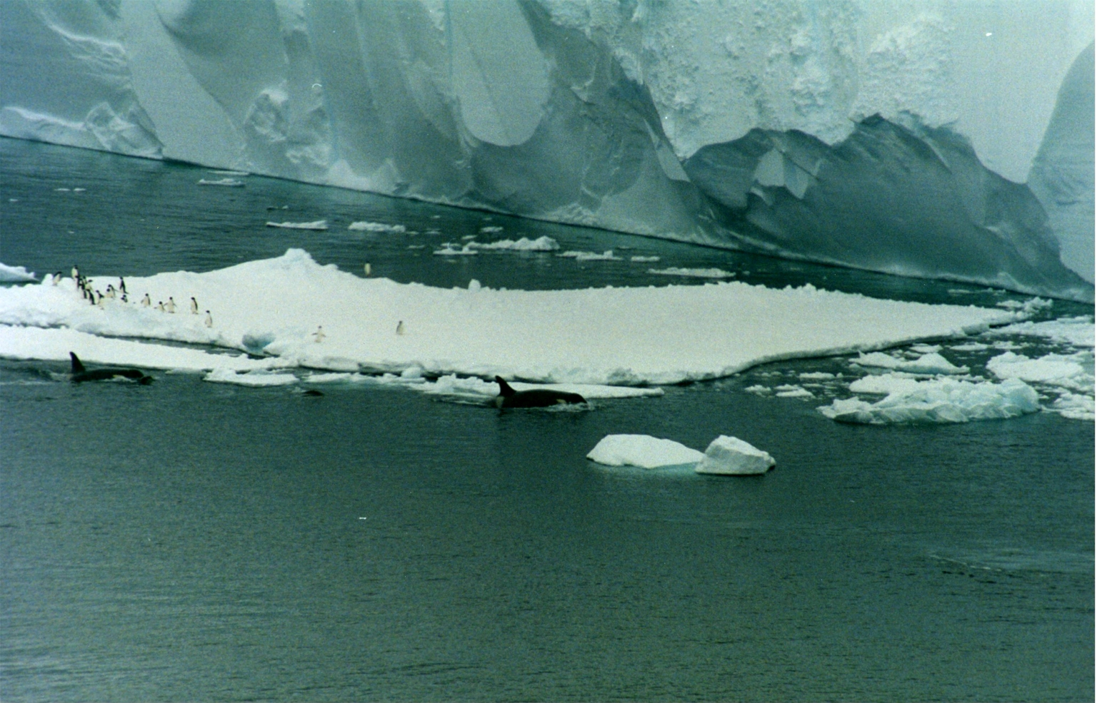 Iceberg with Adélie penguins.Orcas are swimming by in Ross Sea, Antarctica.At background is Drygalski ice tongue The picture is a scan of an old film picture. The picture was taken by Brocken Inaglory Other versions: A cropped version of this photo is stored on Wikimedia Commons: [1].